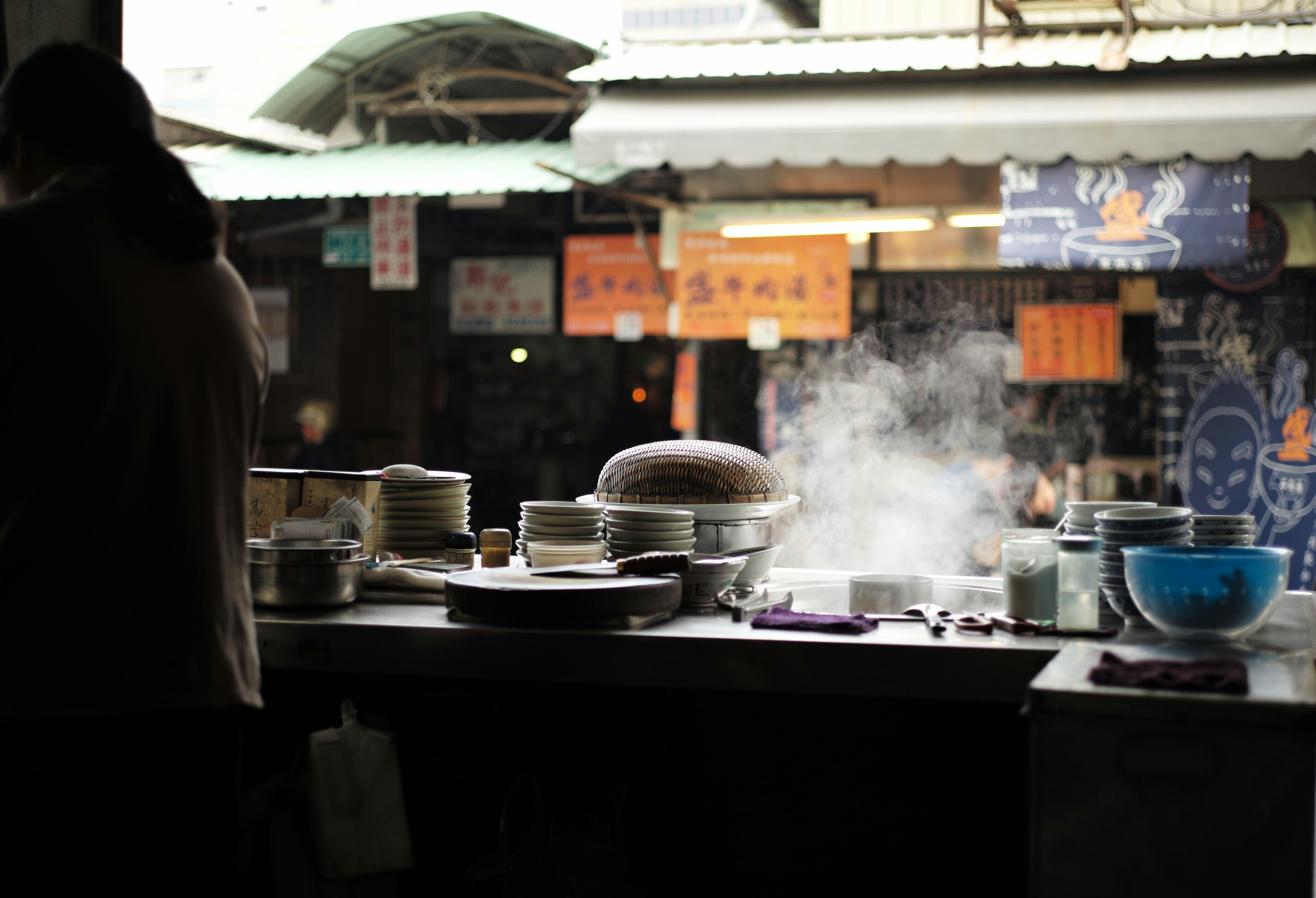 Cater Yang 2017-01-23